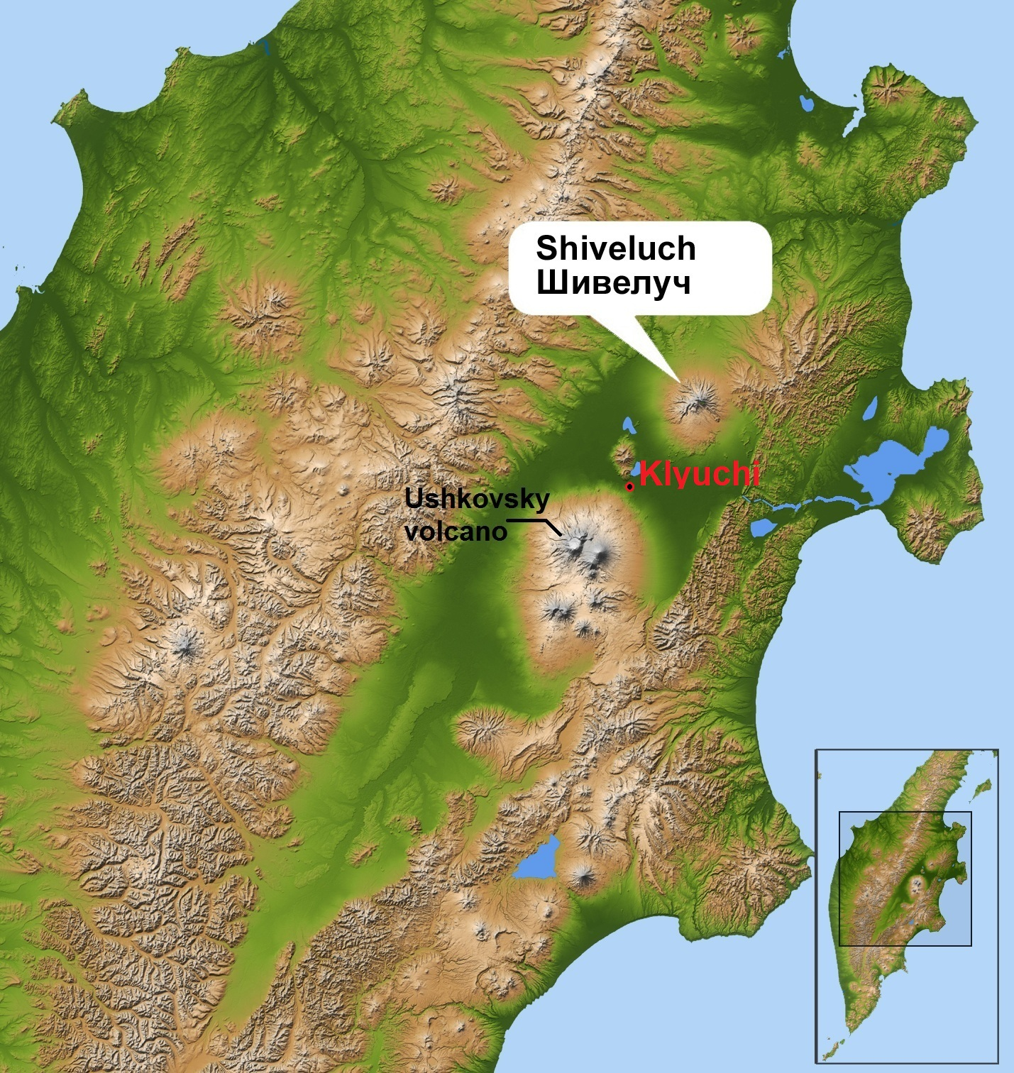 A sideways view of kamchatka.